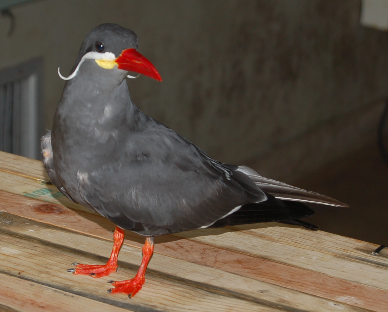 A photograph showing most of the front side of an Inca Tern (Larosterna inca). Picture taken at the Philadelphia Zoo.